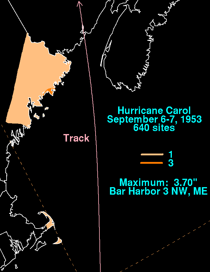 Storm total rainfall map of Hurricane Carol during September 1953.